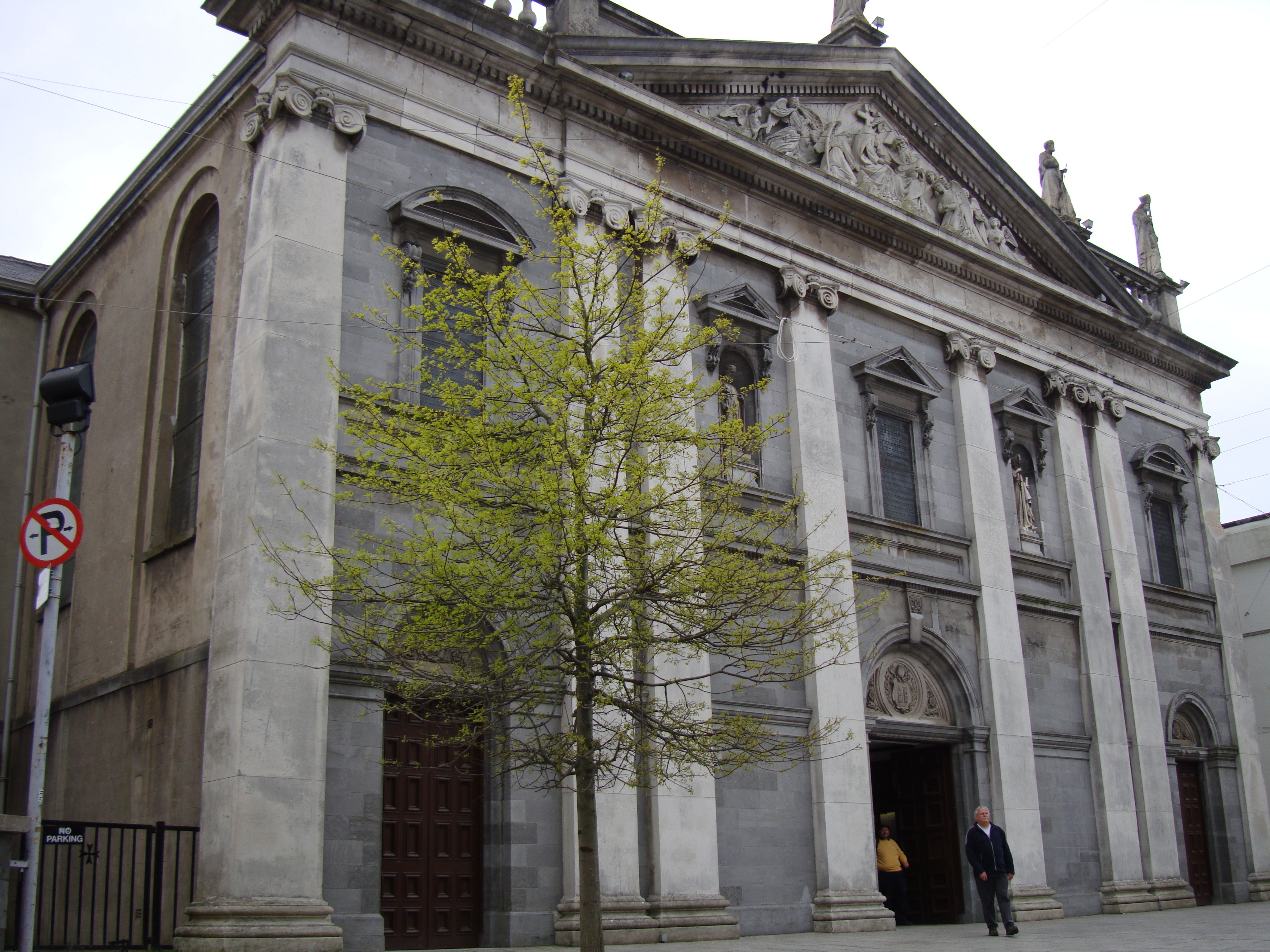 Photograph of the Holy Trinity Cathedral, Waterford, Republic of Ireland